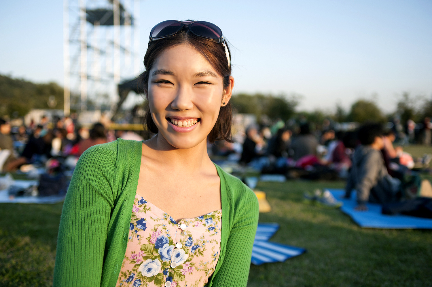 Park Solhee at a music festival in October 2013